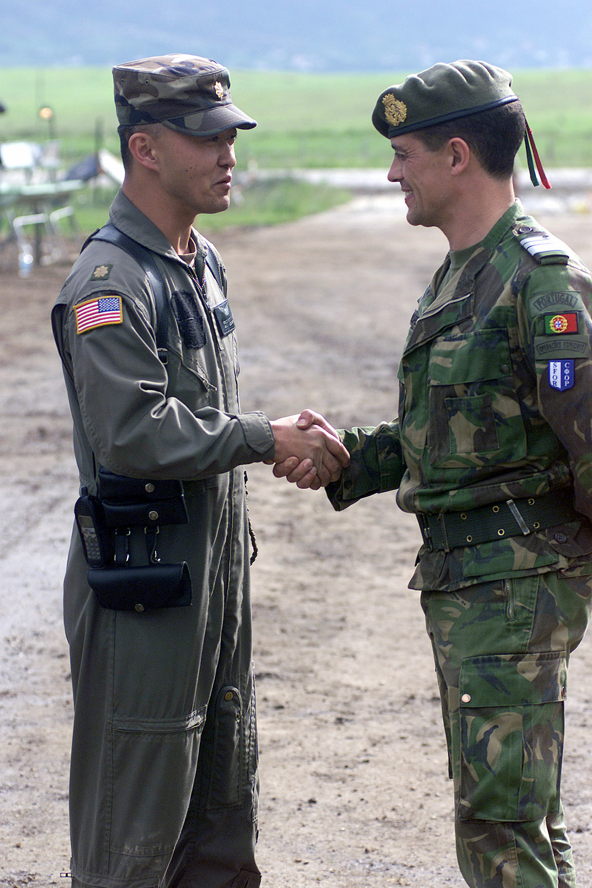 US Army (USA) Major (MAJ) Fred Choi (left) Operations Officer, 1st Battalion (Attack), 25th Aviation Regiment and Portuguese Army Lieutenant Colonel (LTC) Isidro De Morais Pereira, Commander, 2nd Armored Infantry Battalion, express mutual appreciation for the successful outcome of the combined live-fire exercise conducted at the Glamoc live-fire range, Camp Butmir, Bosnia and Herzegovina, during Exercise IBERIAN RESOLVE.